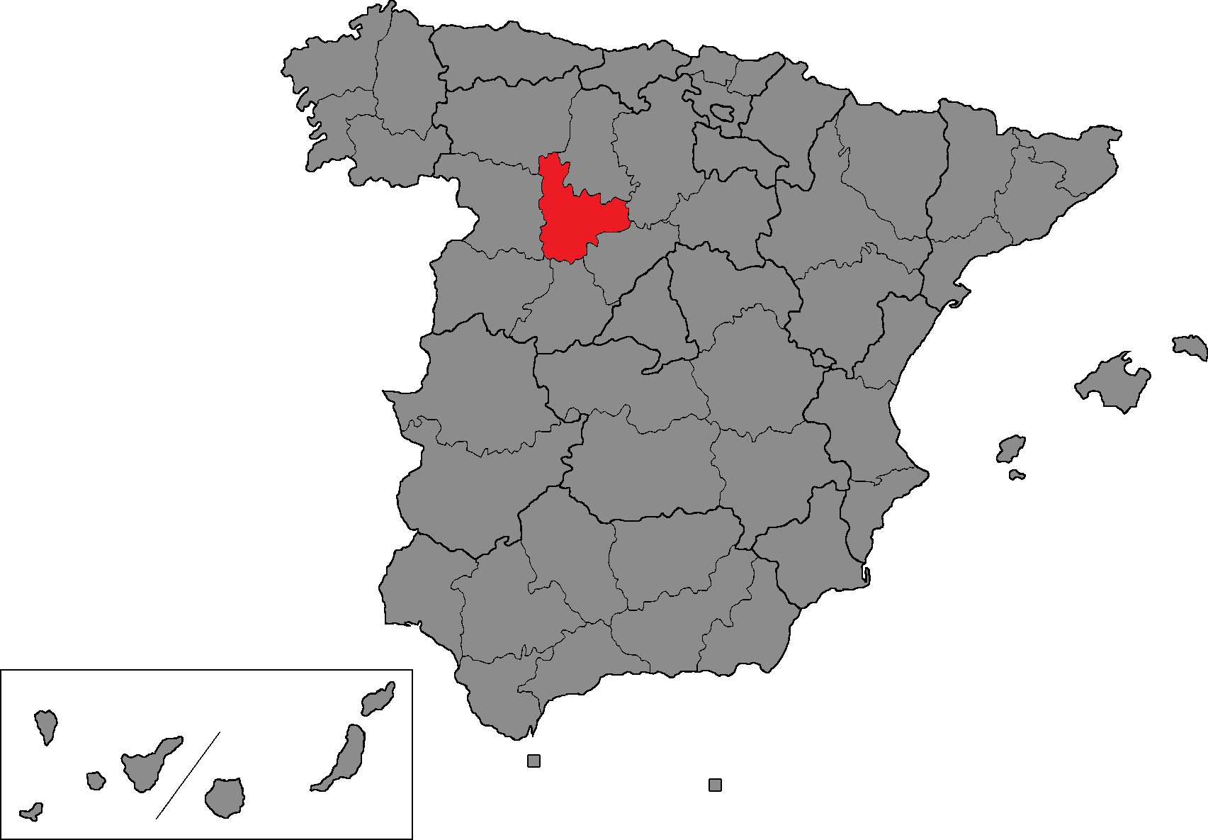 Spanish Congress of Deputies district of Valladolid.